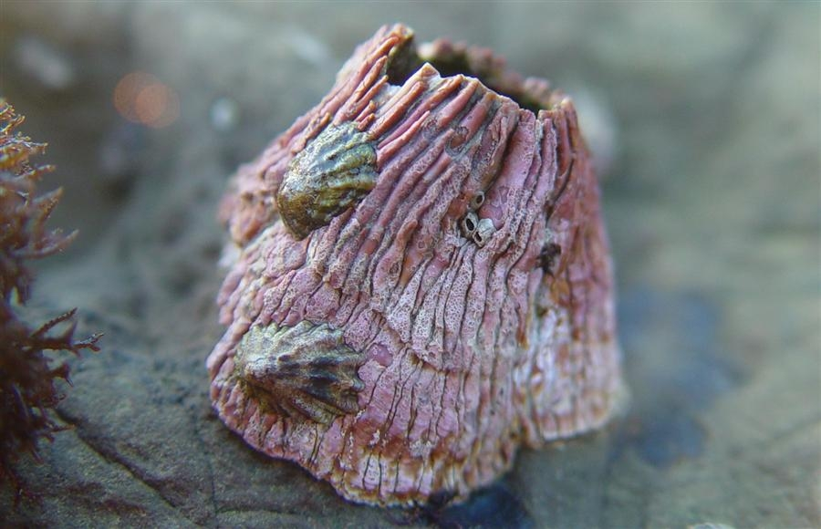 The outer shell of a volcano barnacle, Tetraclita rubescens, is a conical, red-colored, highly-ribbed protection for the soft bodied barnacle (arthropod) living inside. Barnacles are cemented in their shells on their heads, extending their legs into the water to feed.